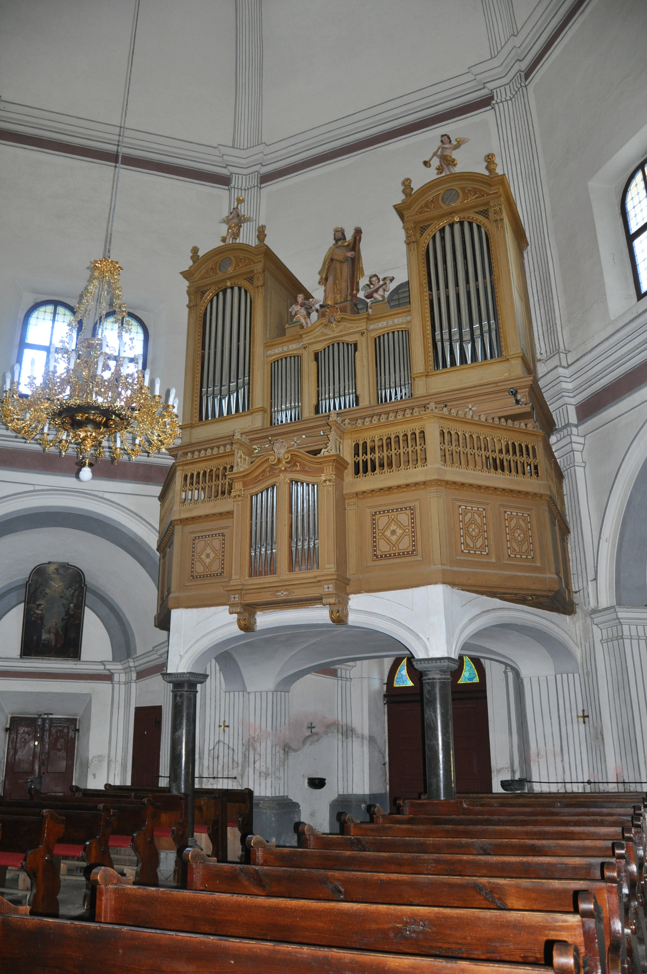 Nova Štifta, village + church, Slovenia